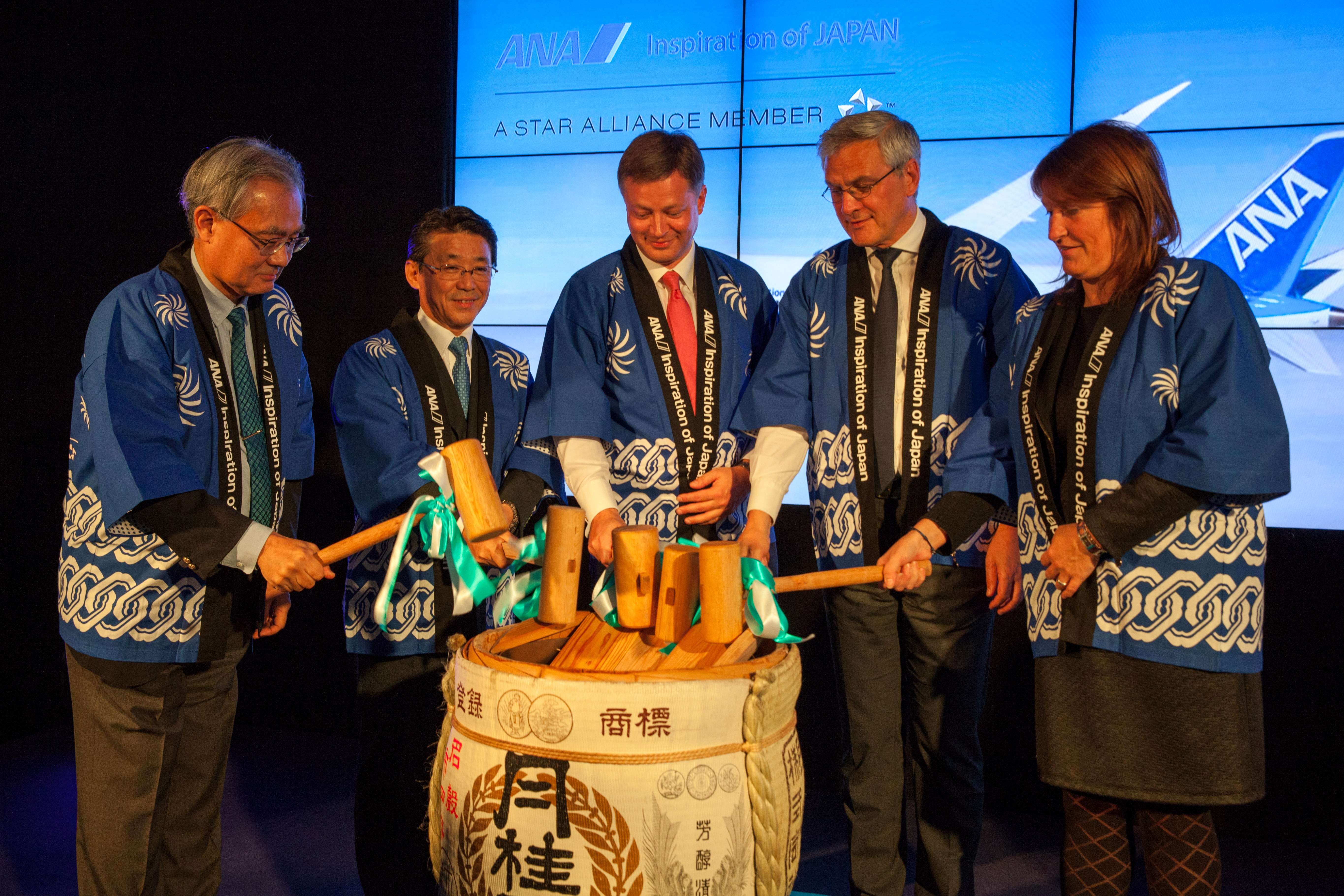 Mr Ishii, Japan Ambassador, Mr Katanozaka, CEO ANA, Brussels Airport CEO Arnaud Feist, vice-PM Peeters & Minister Galant performing Kagami biraki: the opening of a cask of sake to bring good luck to and celebrate the new direct Brussels - Tokyo route with ANA.